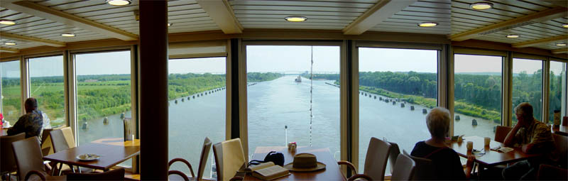 View of the Kiel Canal and surroundings (composite image). Taken several hours after after passage through the Elbe River locks at Brunsbüttel, the view is toward the West and the border between Germany and Denmark is in the distance to the right. This is about one quarter of the way through a passage to the Baltic Sea at a widened area for passing. Shoreline bollards are to secure ships while awaiting clearance for passage. Ships are assigned points based on size and if the sum two ships' points exceeds a certain limit they are not allowed to pass or overtake while both are free to maneuver - one must tie up. Photos taken from the cruise ship M. V. Norwegian Dream from in the sports bar on the ship. June 2003 by User:Leonard G., who combined the images into a single panorama. While most large, modern cruise ships cannot pass through this canal due to clearance limits under bridges, one medium sized ship, the M. V. Norwegian Dream has special funnels and masts that can be lowered for passage. A typical Baltic cruise for this ship is Dover england, through the Kiel Canal and across the Baltic to stops in Tallin (Estonia), St. Petersburg (Russia), Helsinki (Finland), Stockhom (Sweden), Copenhagen (Denmark) and Oslo (Norway), returning to Dover via the North Sea. This route was discontinued in September, 2007.